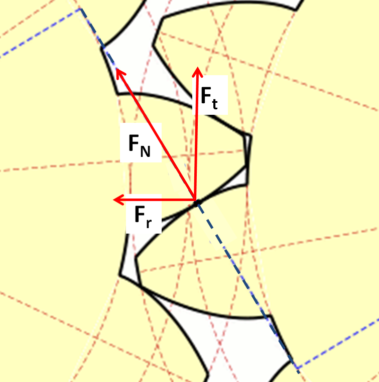 Spur gear mesh - forces